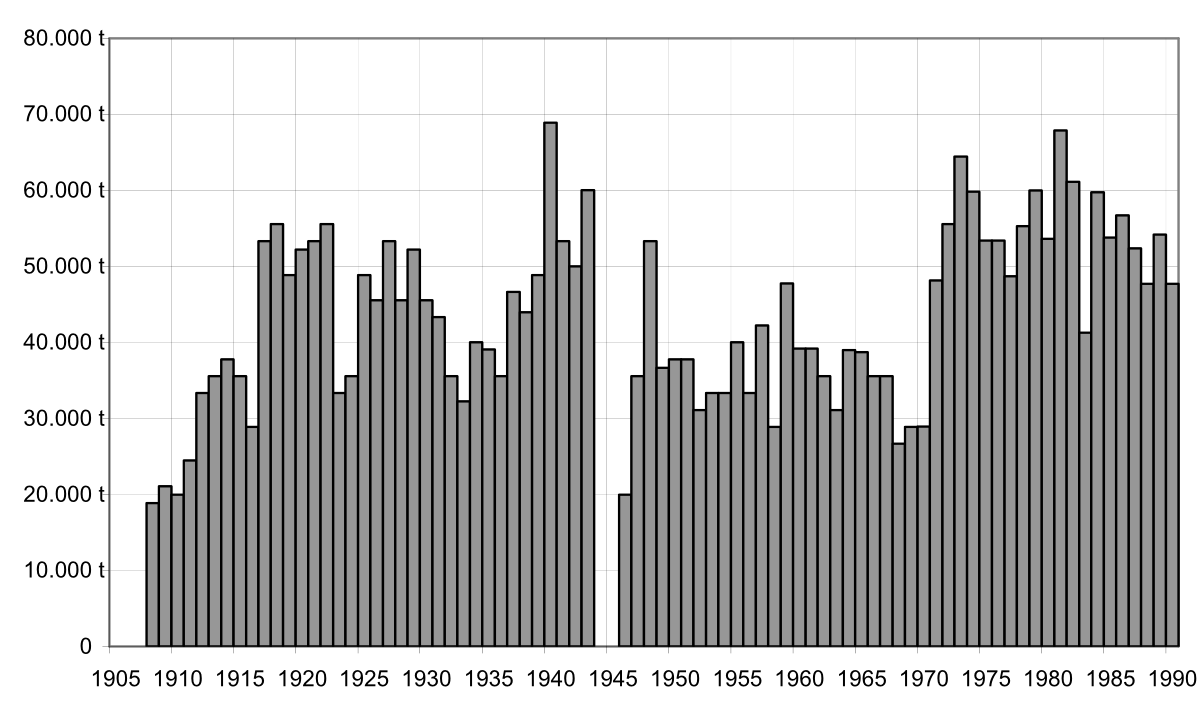 development of freight traffic on lower Kocher valley railway from 1908 until 1990